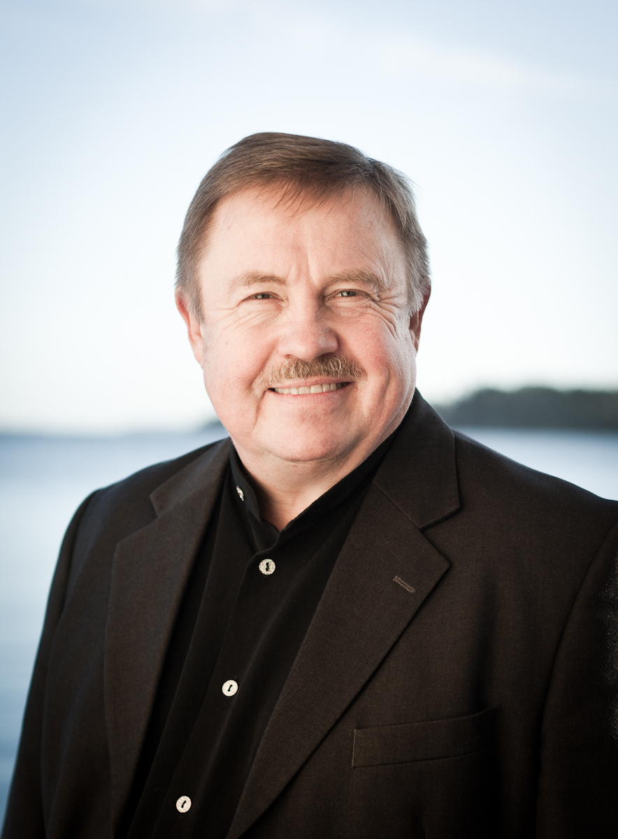 Photographic portrait of the Finnish composer Jukka Linkola, 2015